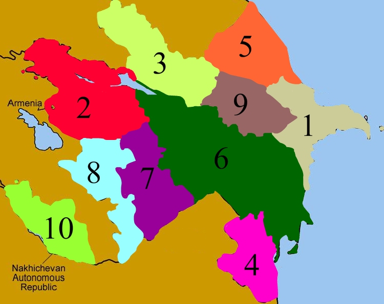 Economical districts of Azerbaijan